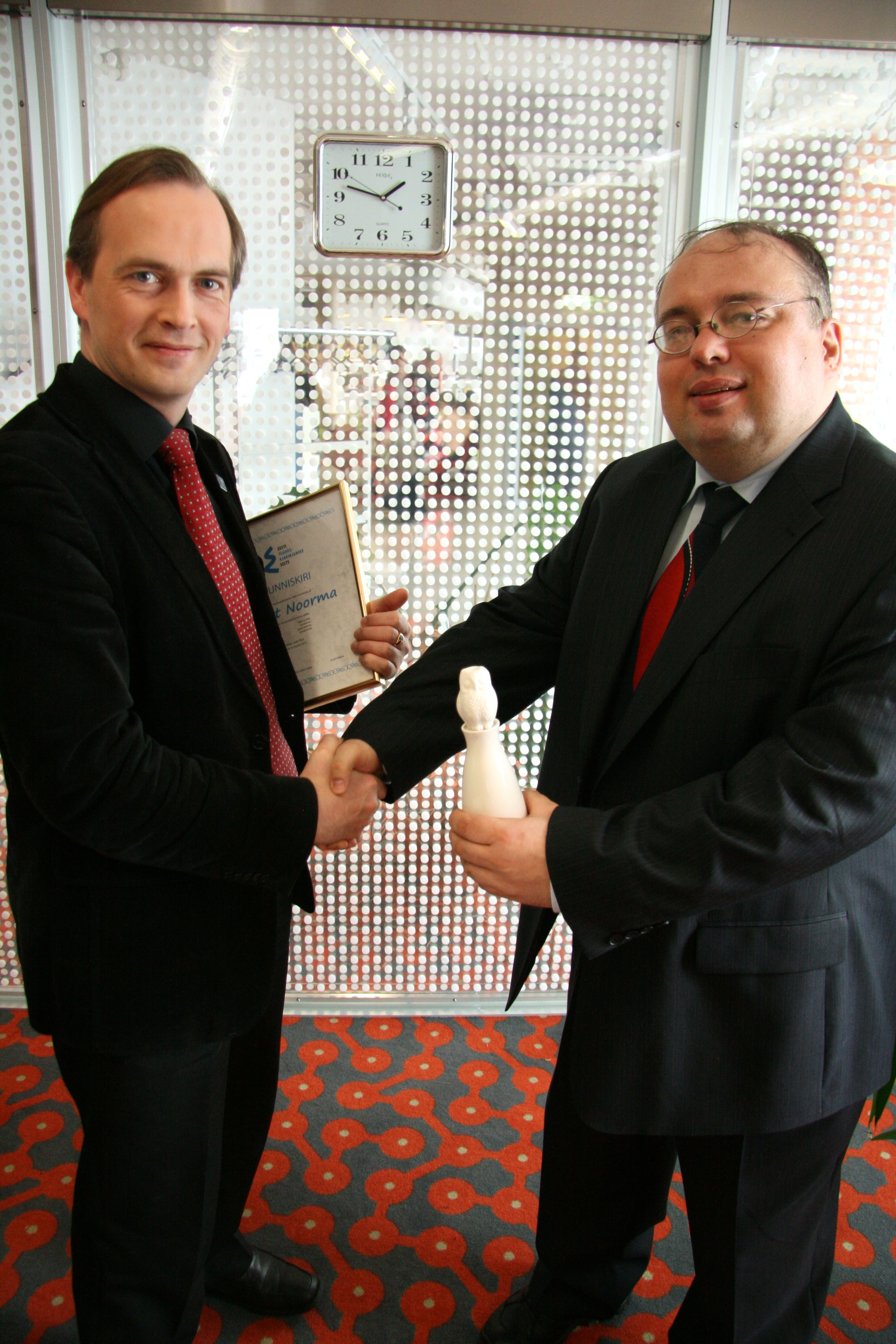 Chairman of the Estonian Society of Science Journalists Priit Ennet handing over the 2012 Ökul Prize to Mart Noorma on March 31, 2013 in Ahhaa Science Center in Tartu, Estonia.